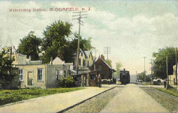 The Watsessing Avenue train station in Bloomfield, New Jersey. The station is viewed before the depression of the tracks in 1912.